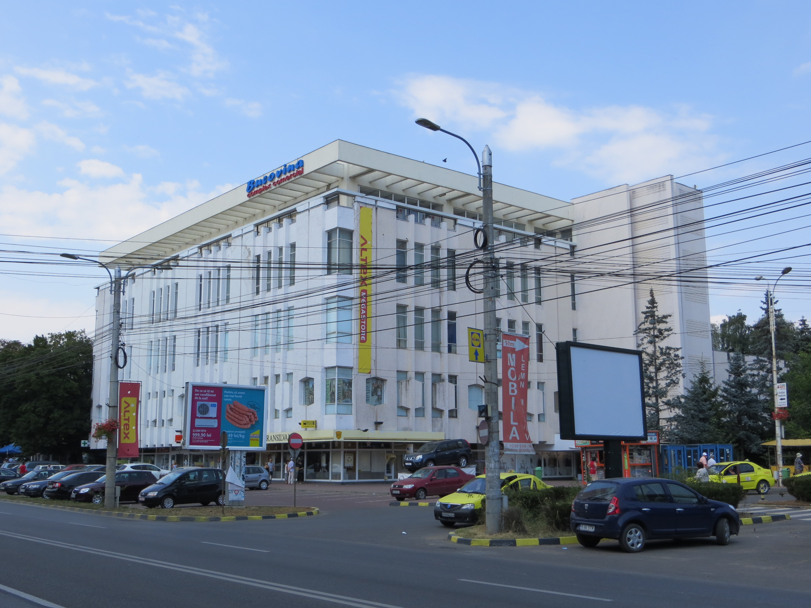 Bukovina Shopping Center in Suceava.